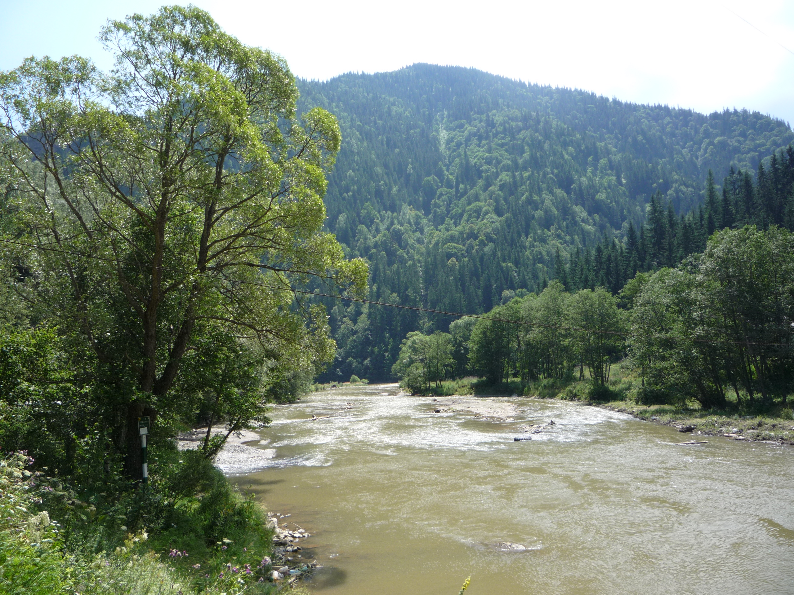 The river Bistriţa close to Vatra Dornei